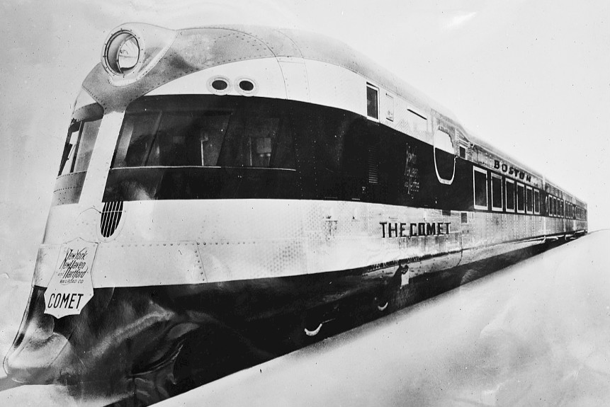 Photo of the New York, New Haven and Hartford streamline The Comet. The train was built by Goodyear-Zeppelin.